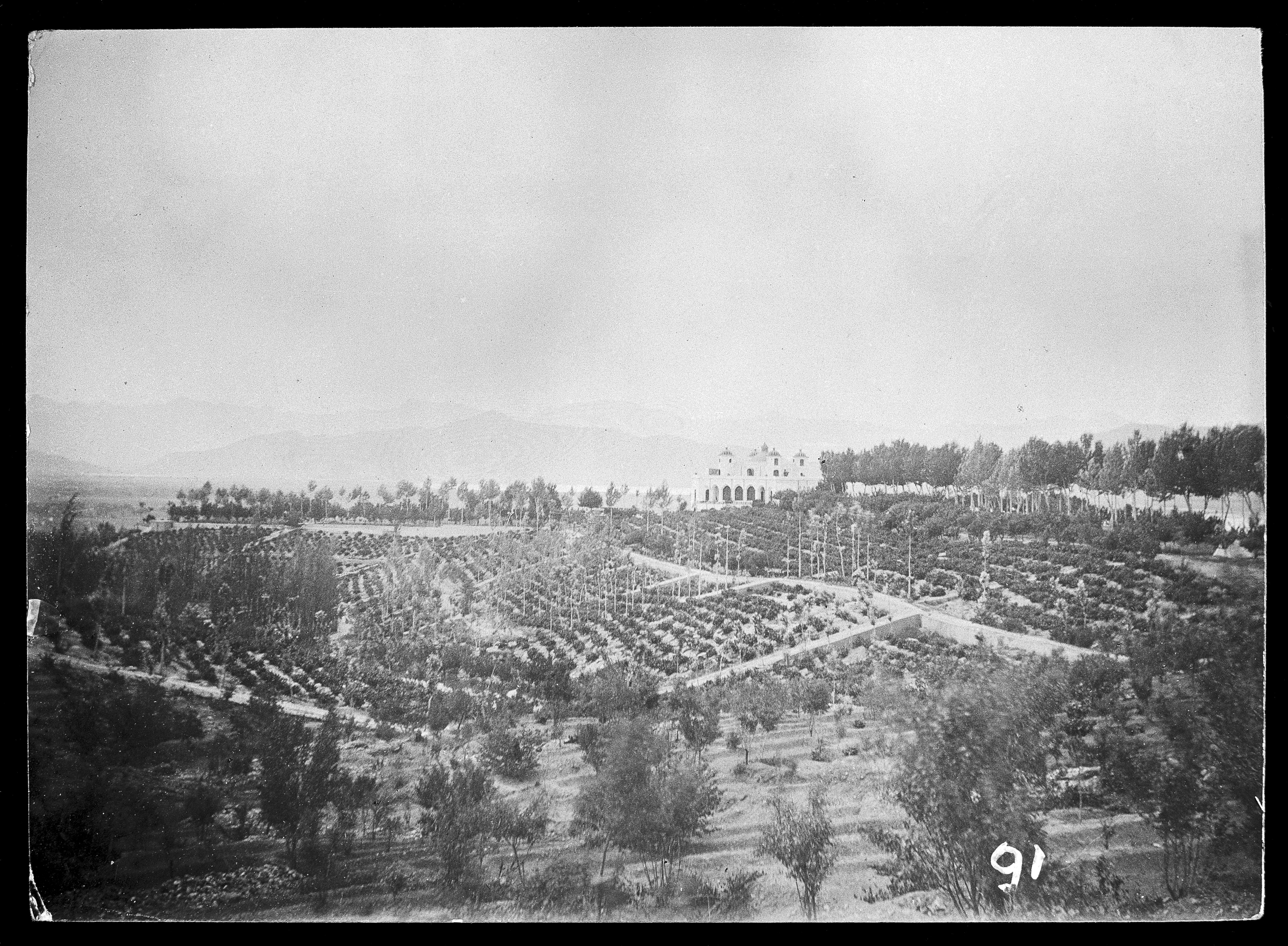 The palace ofBagh-e Bala, north-west ofArg. The fields in the foreground are vinyards. Wellcome Images Keywords: Afghanistan; Vinyard; Palace; Lillias Anna Hamilton